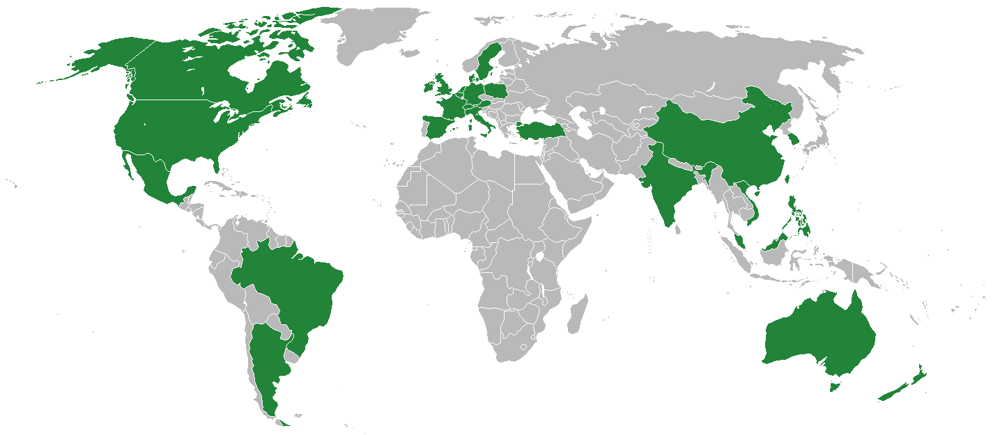 eBay localization